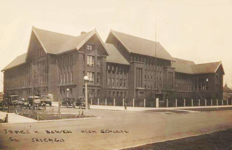 Image of Bowen High School at 2710 E. 89th Street in Chicago, Illinois by Dwight Perkins, architect, 1910